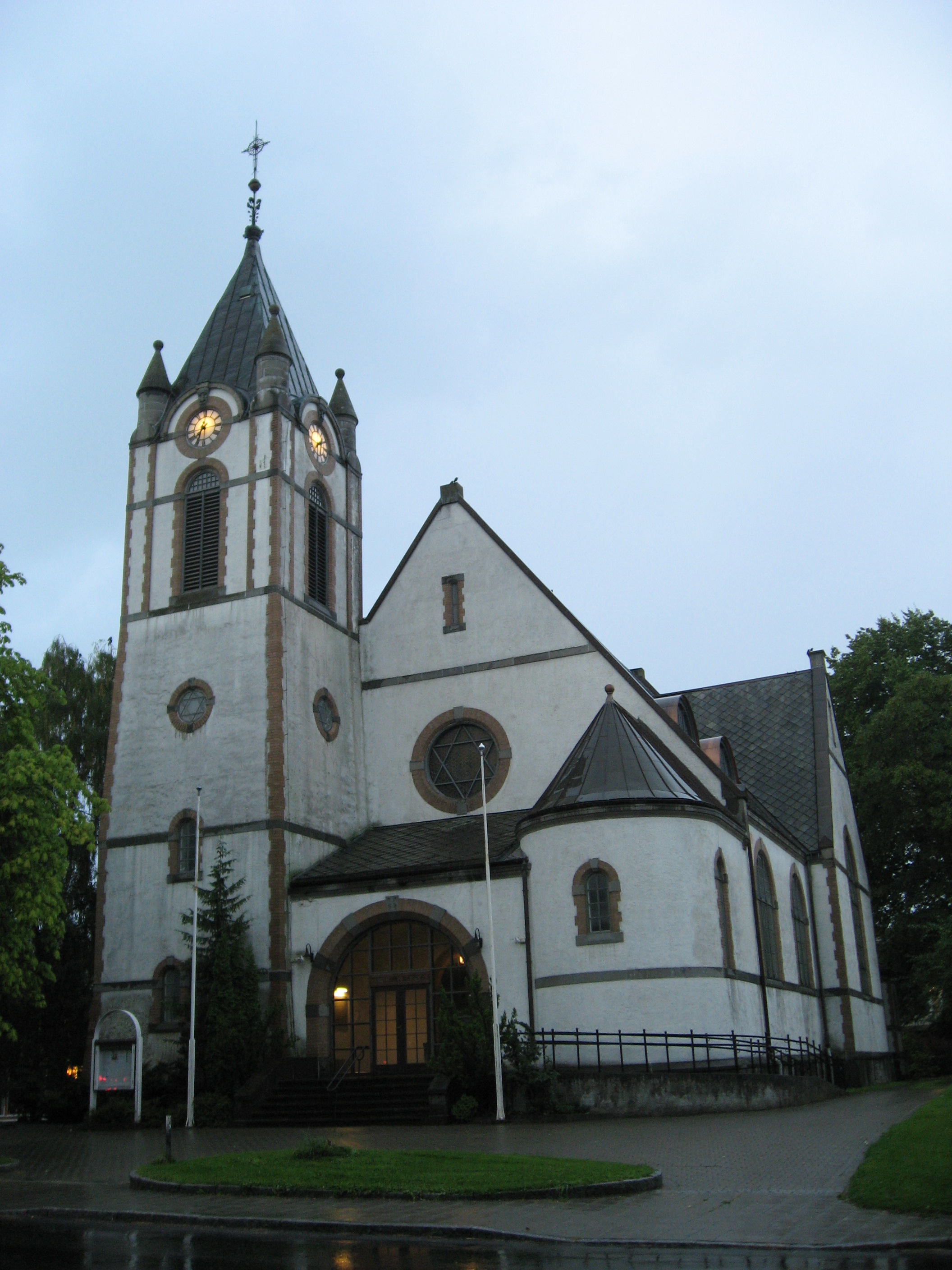 The church in Levanger, Norway. Photo taken by Alan Ford 2006-09-02.